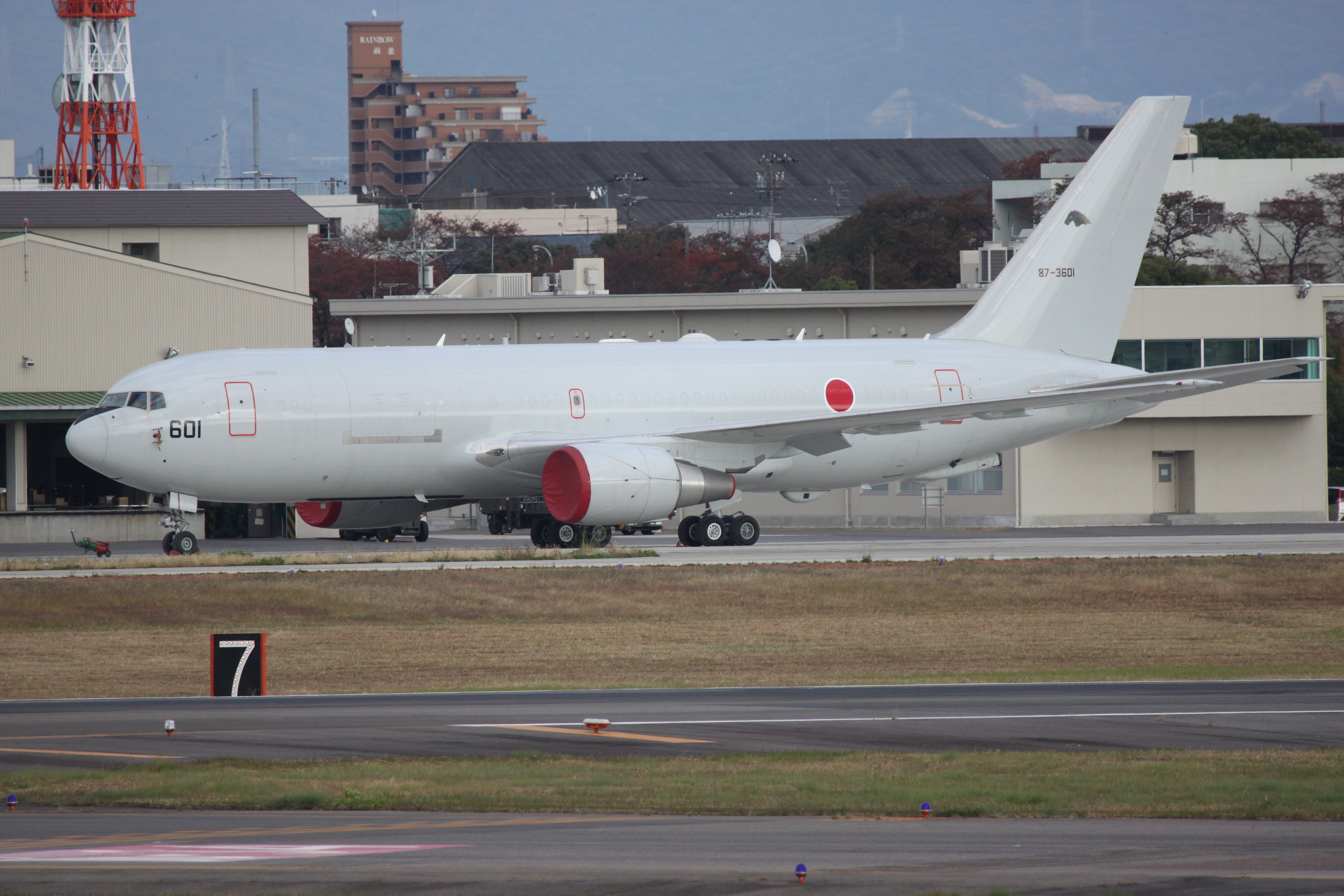 someday the USAF may have these!